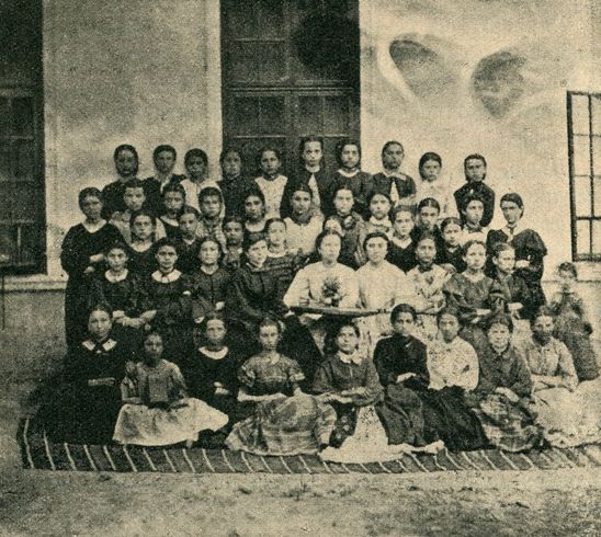 The first generation of Higher girls' school in Belgrade, graduates 1865/66. In the picture with School principal Catherine Milovuk (sits at the table) and class teachers P. Pinterović (right of the principal) and Evica Vekecki (left)